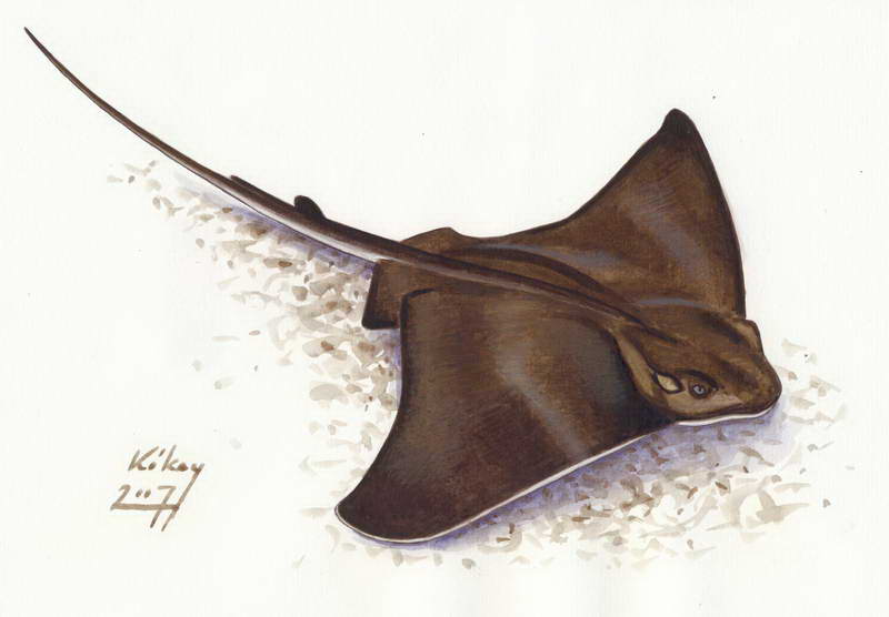 Myliobatis aquila